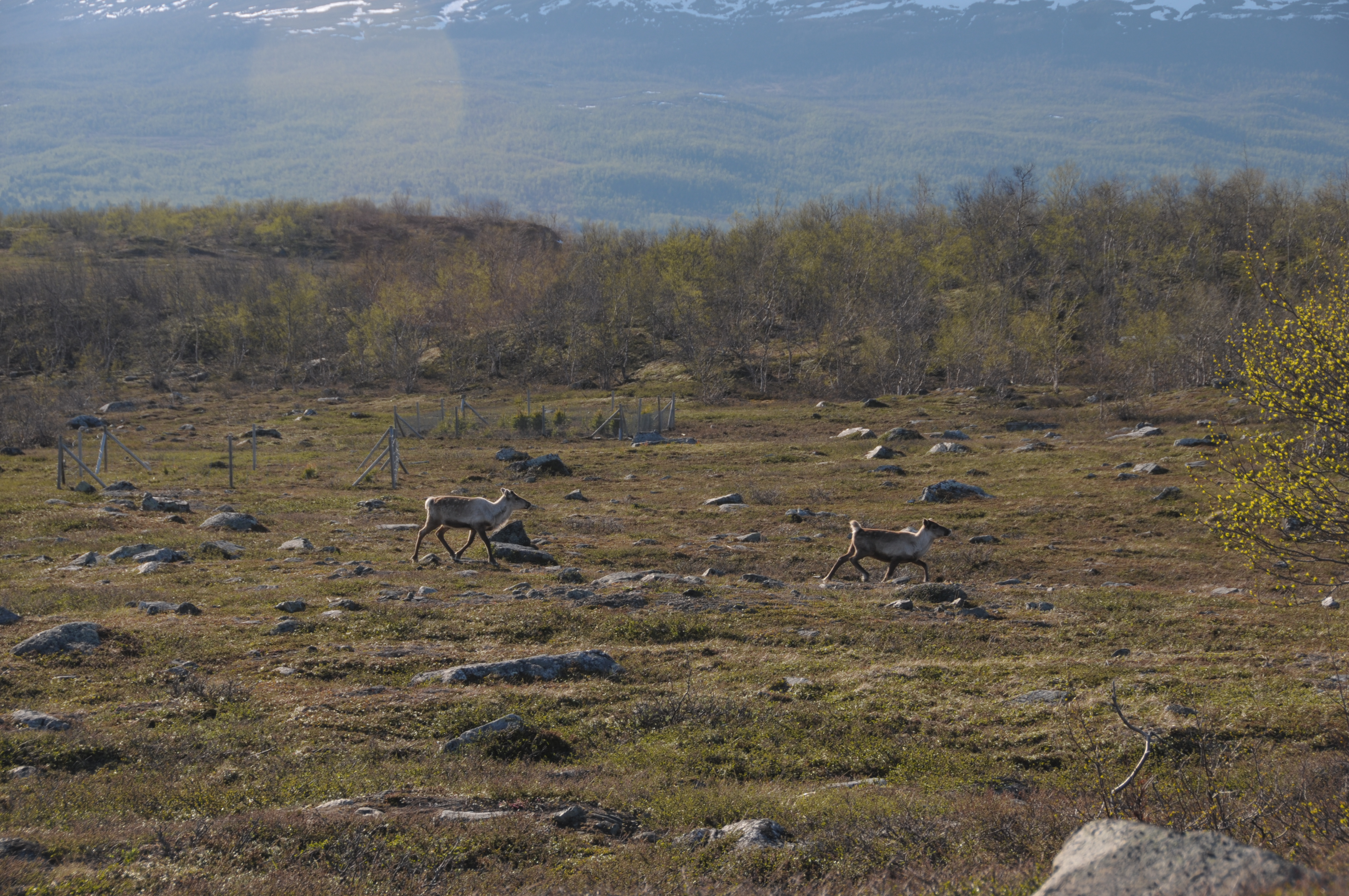 Reindeers in front of two experimental grazing exclosures in Abisko, sub-Arctic Sweden. The closest fence excludes large herbivores while the furthest one excludes rodents as well.